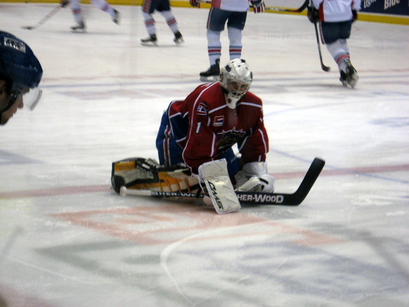 Philippe Sauve, US-American ice hockey goaltender of the Hamilton Bulldogs